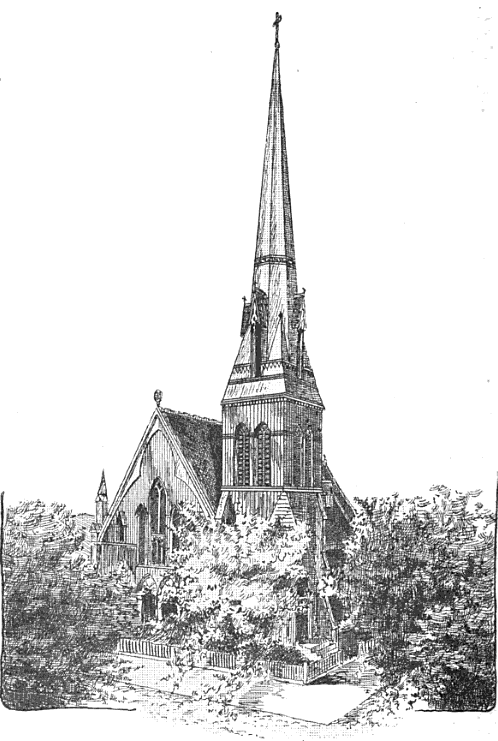 Trinity Church in Portland, Oregon, erected in 1872 as the second Episcopal church ever built there, badly damaged by fire in 1902. (Source: King's Handbook of Notable Episcopal Churches in the United States, 1889, p. 228).